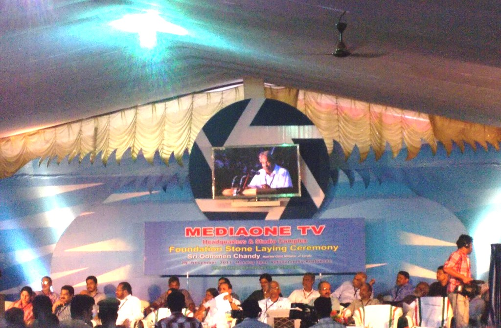 MediaOneTv Foundation stone Laying_Oommen Chandy